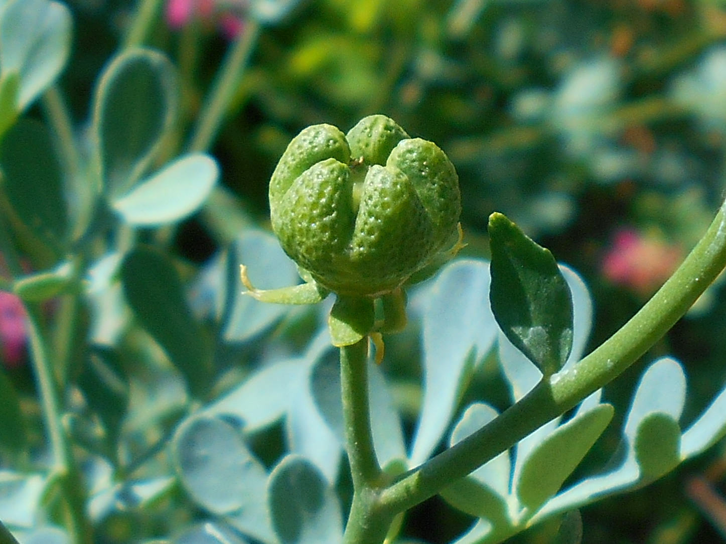 Ruta graveolens, UMCS Botanical Garden in Lublin, Poland.